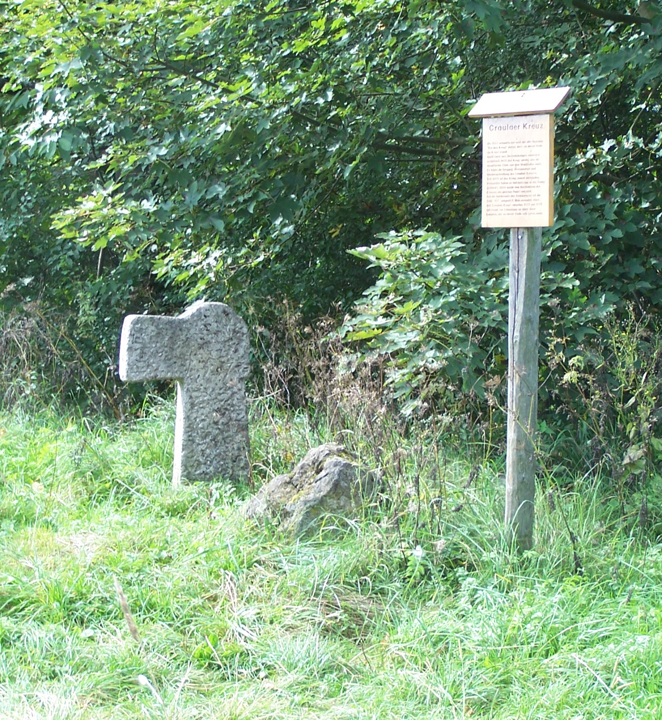 The stone cross - named Craulaer Kreuz